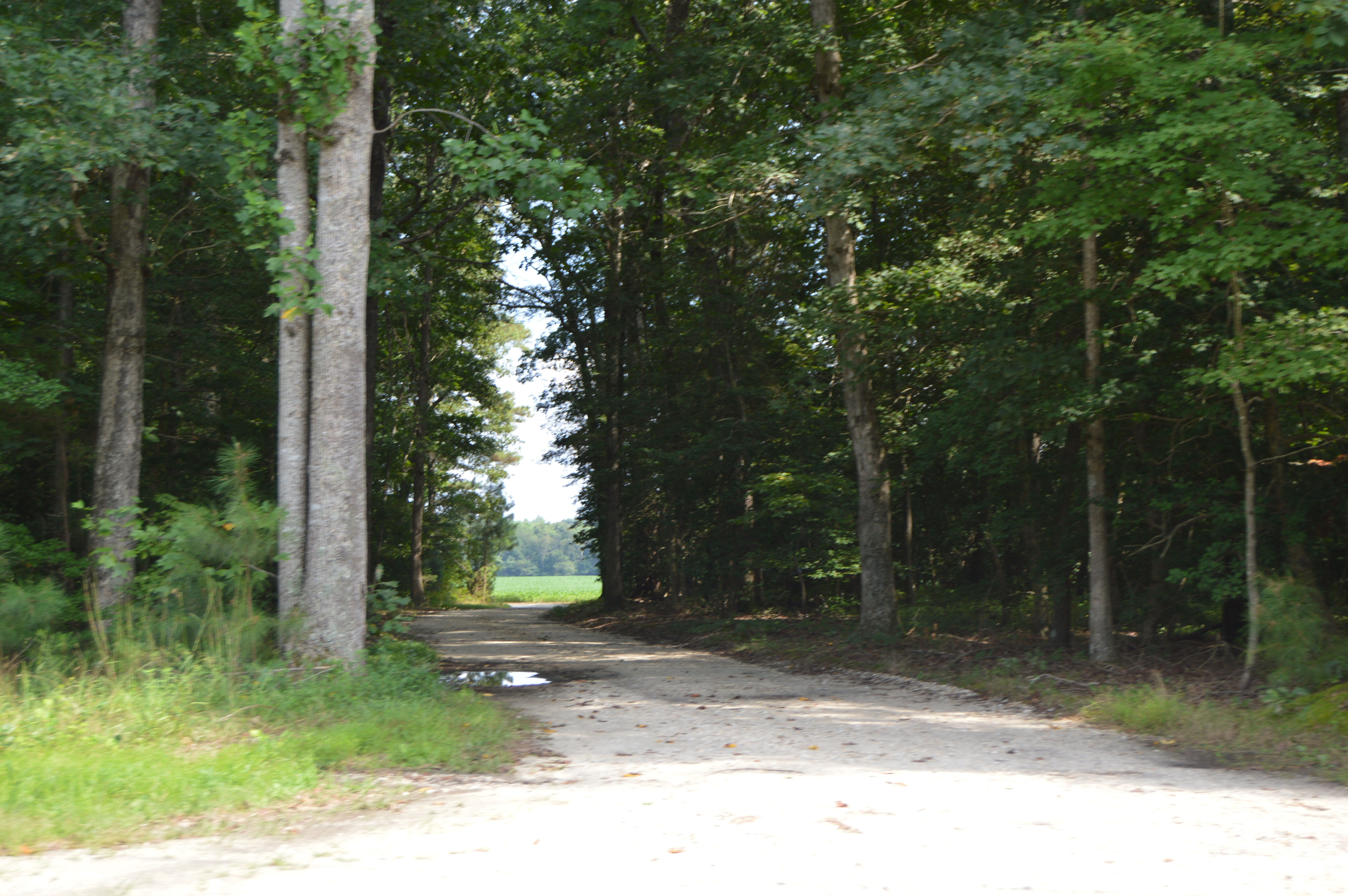 Entrance to the Totomoi property, located along Rural Point Road west of Studley in Hanover County, Virginia, United States. The property is listed on the National Register of Historic Places.